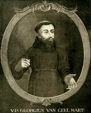 Joris van Geel (1617-1652), Belgian missionary in Africa